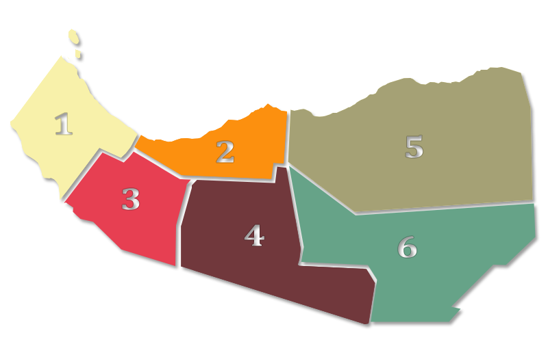 Regions of Somaliland. The 6 Regions of Somaliland.